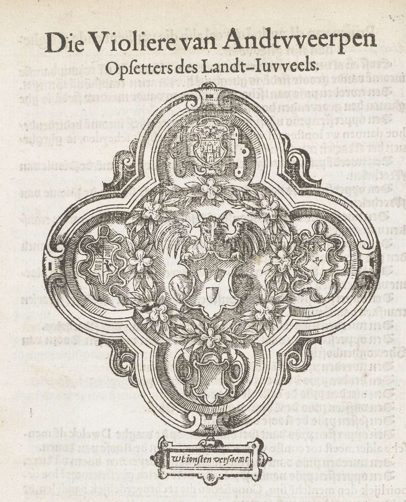 The invitation and moralities of the Landjuweel competition held in Antwerp in 1561, as well as other poetic works, were published in 1562 under the title Spelen van sinne, vol scoone moralisacien, vvtleggingen ende bediedenissen op alle loeflijcke consten with a preface by van Haecht. Published in 1562 in Antwerp by M. Willem Siluius. Willem van Haecht wrote the invitation and introduction.